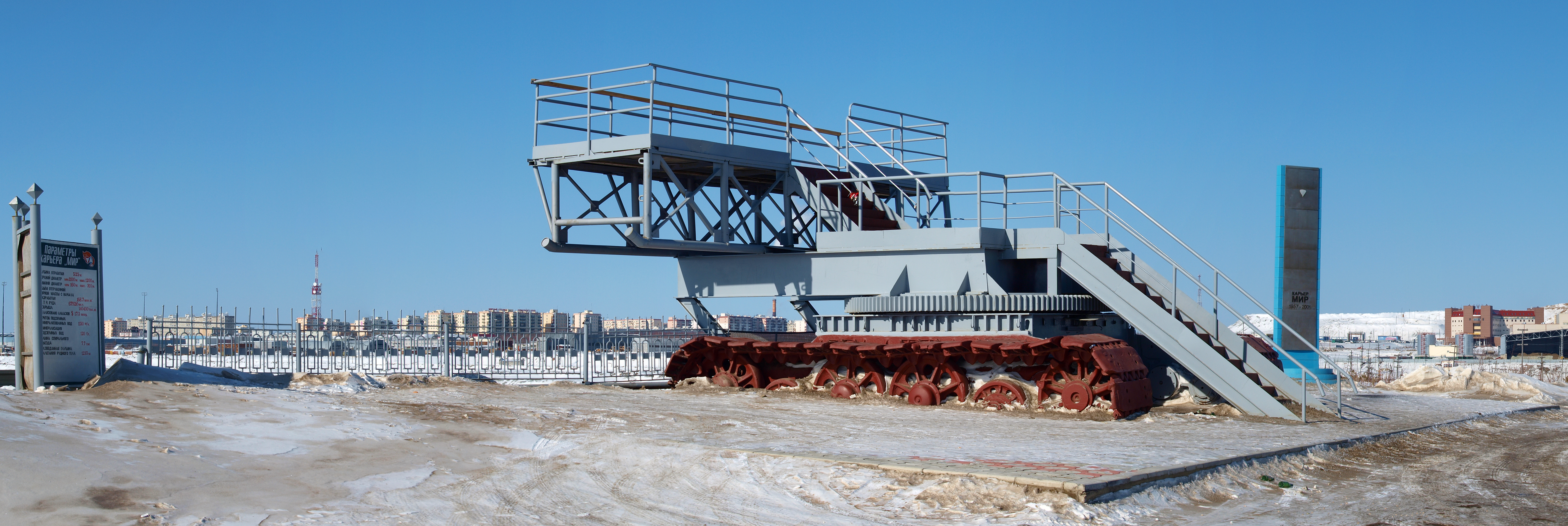 Diamond mine. Mirny in Yakutia.